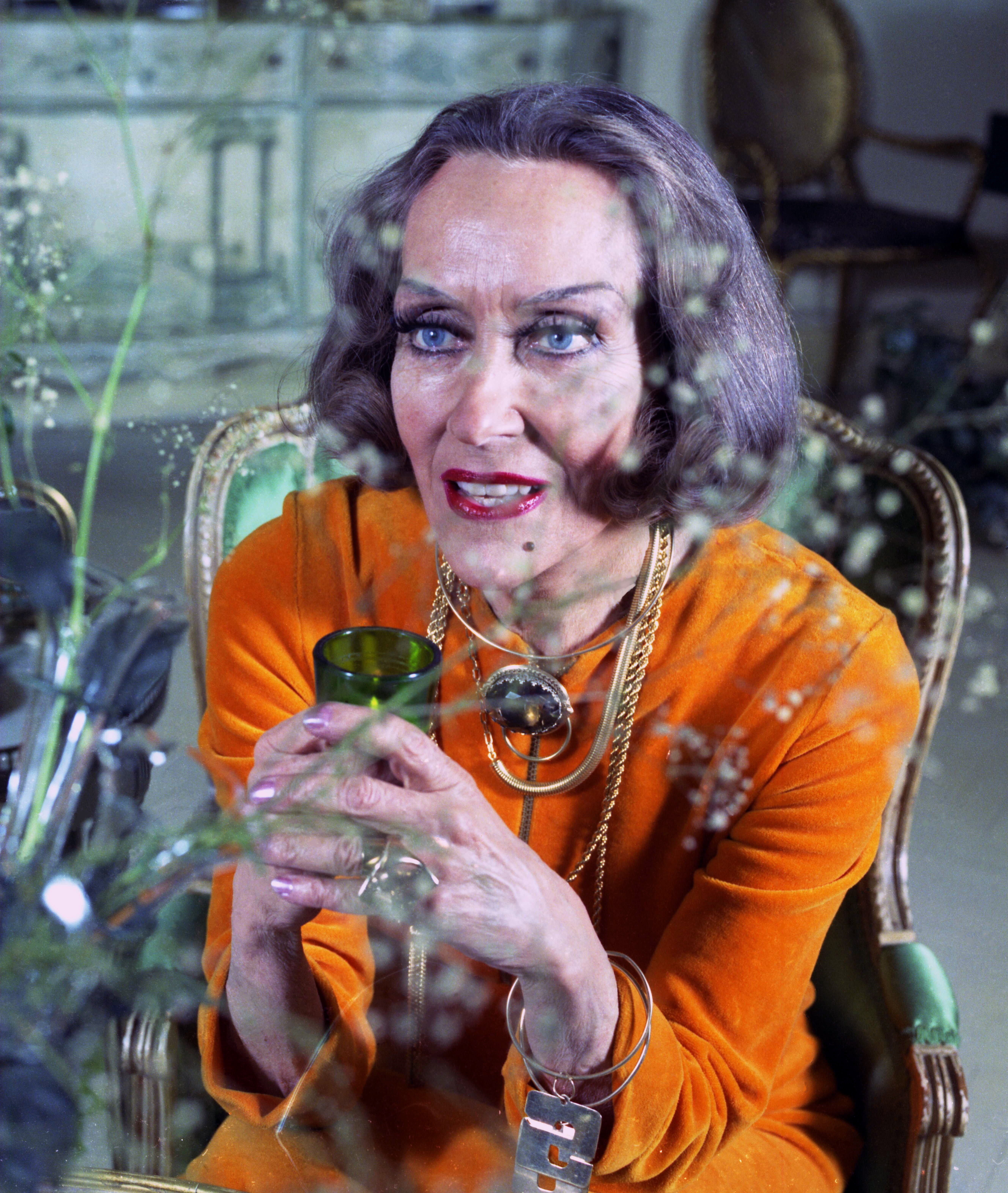 Gloria Swanson